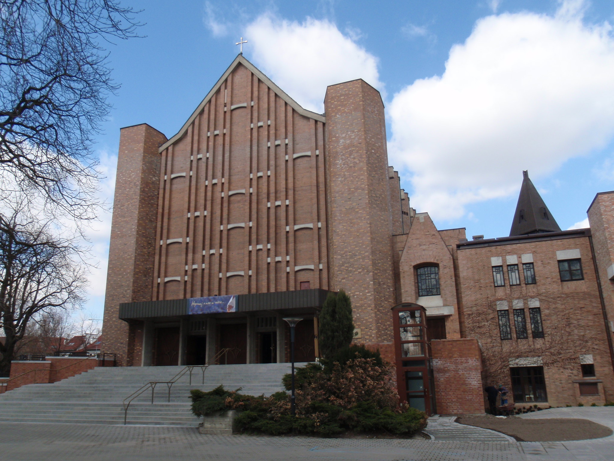 Church of Saint Dominic, Służew, Mokotów, Warsaw